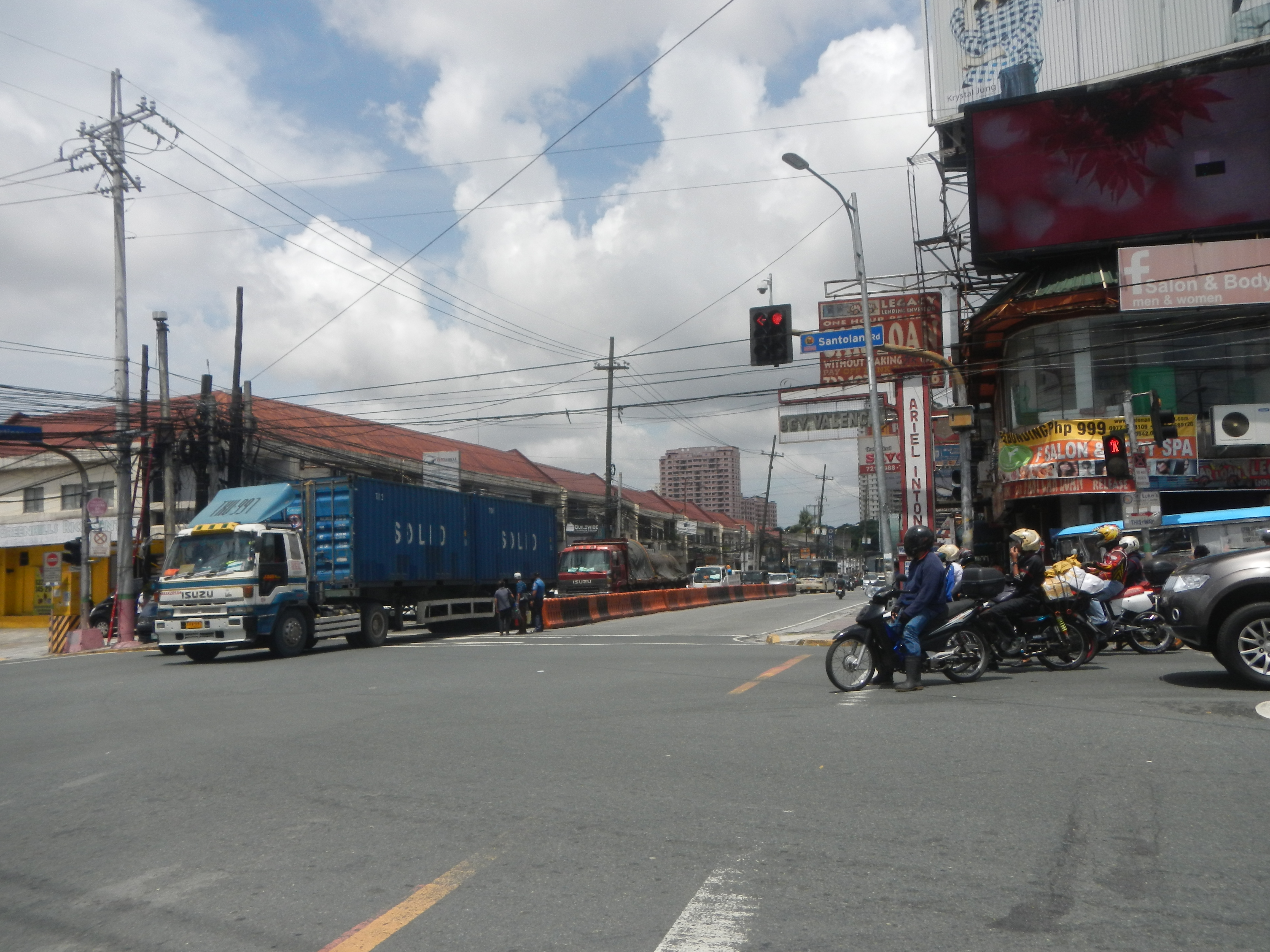 Ortigas Avenue corner Santolan Road corner Bonny Serrano Avenue interconnecting with the Ortigas Interchange also known as the EDSA–Ortigas Interchange or the Ortigas Flyover Circumferential Road 5–Ortigas Avenue Interchange C-5–Ortigas Interchange, Road Widening Constructions P 4.5 million Ortigas Avenue to Horseshoe Drive Santolan Road, Total gasoline station (Metro Manila) in the List of barangays of Metro Manila, Barangays West Crame and Greenhills, San Juan, Metro Manila (Note: Judge Florentino Floro, the owner, to repeat, Donor Florentino Floro of all these photos hereby donate gratuitously, freely and unconditionally all these photos to and for Wikimedia Commons, exclusively, for public use of the public domain, and again without any condition whatsoever).